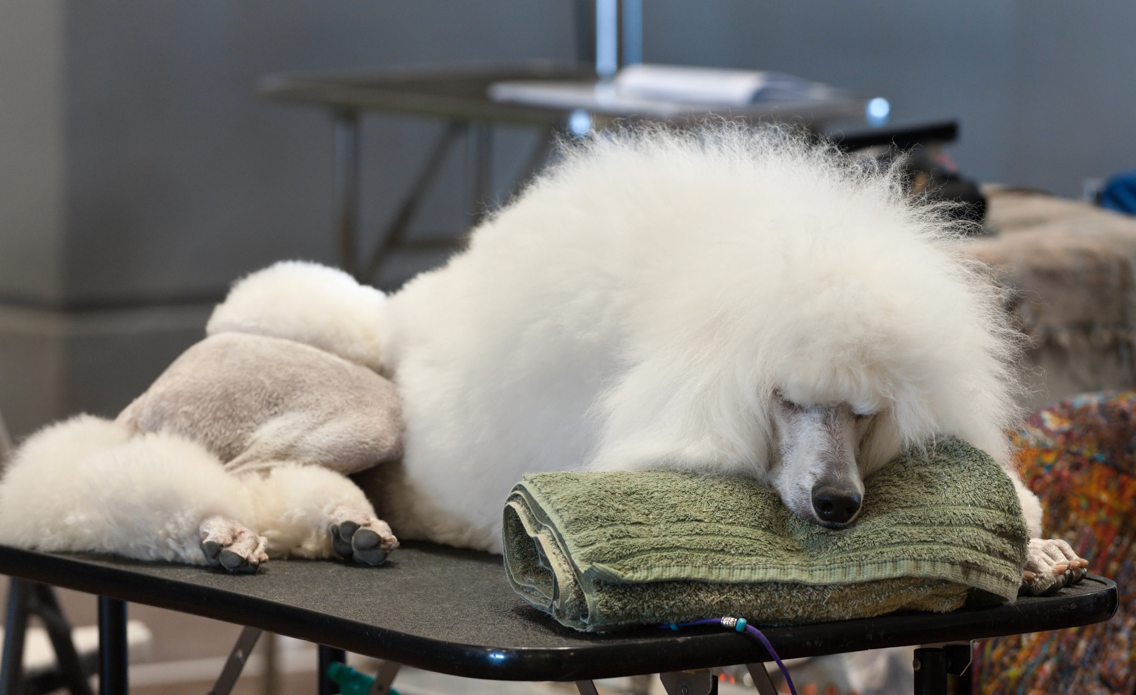 Standard Poodle